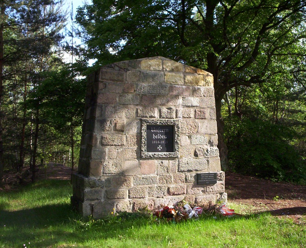 German cemetery from I world war.